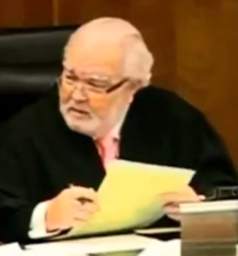 Jorge Rodriguez-Chomat, March 2013